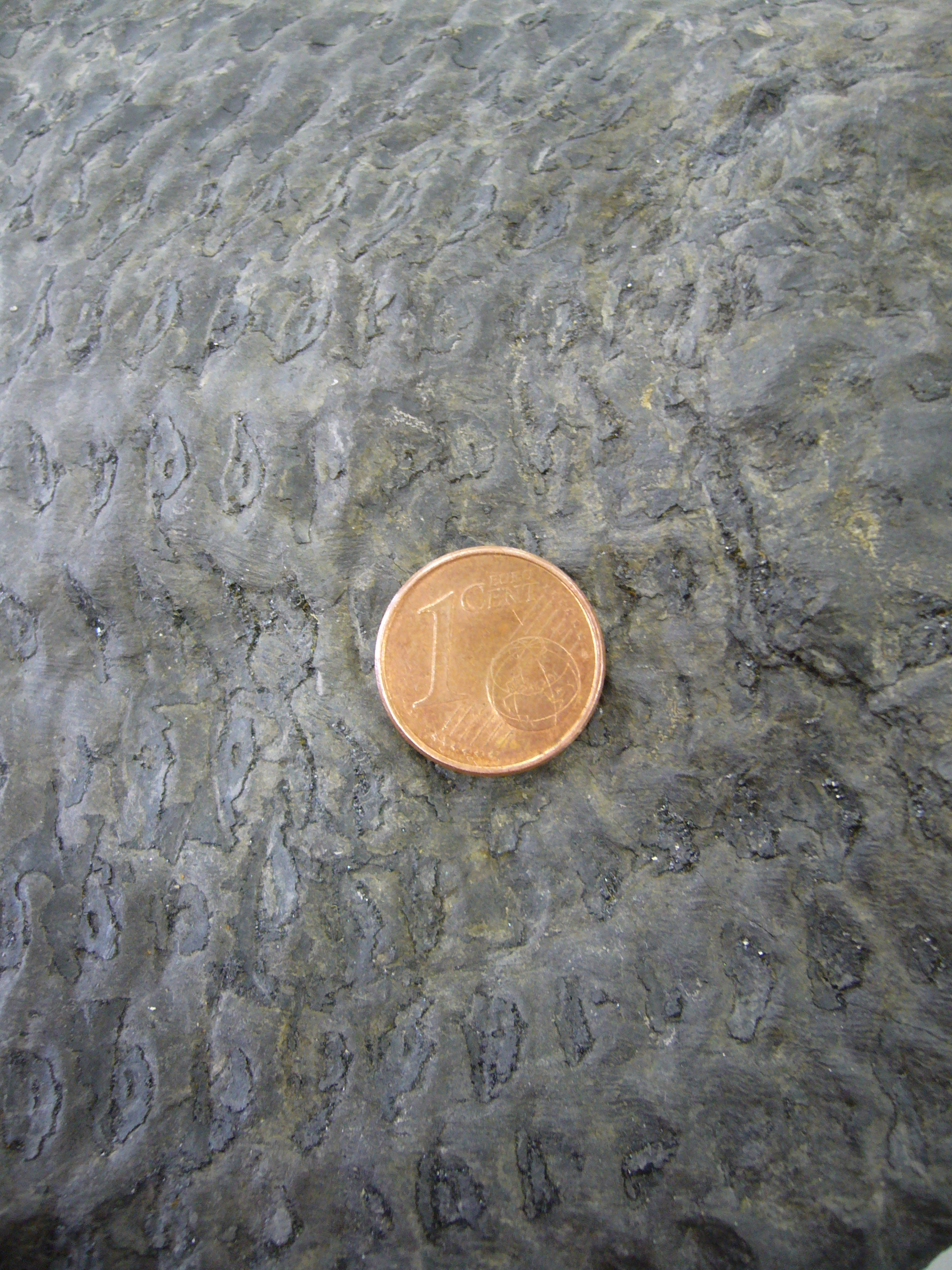 Lepidodendron sp. fossil (Carboniferous Pennsylvanian) founded in León, in a laboratory of practices of the Faculty of Sciences of the University of Corunna.